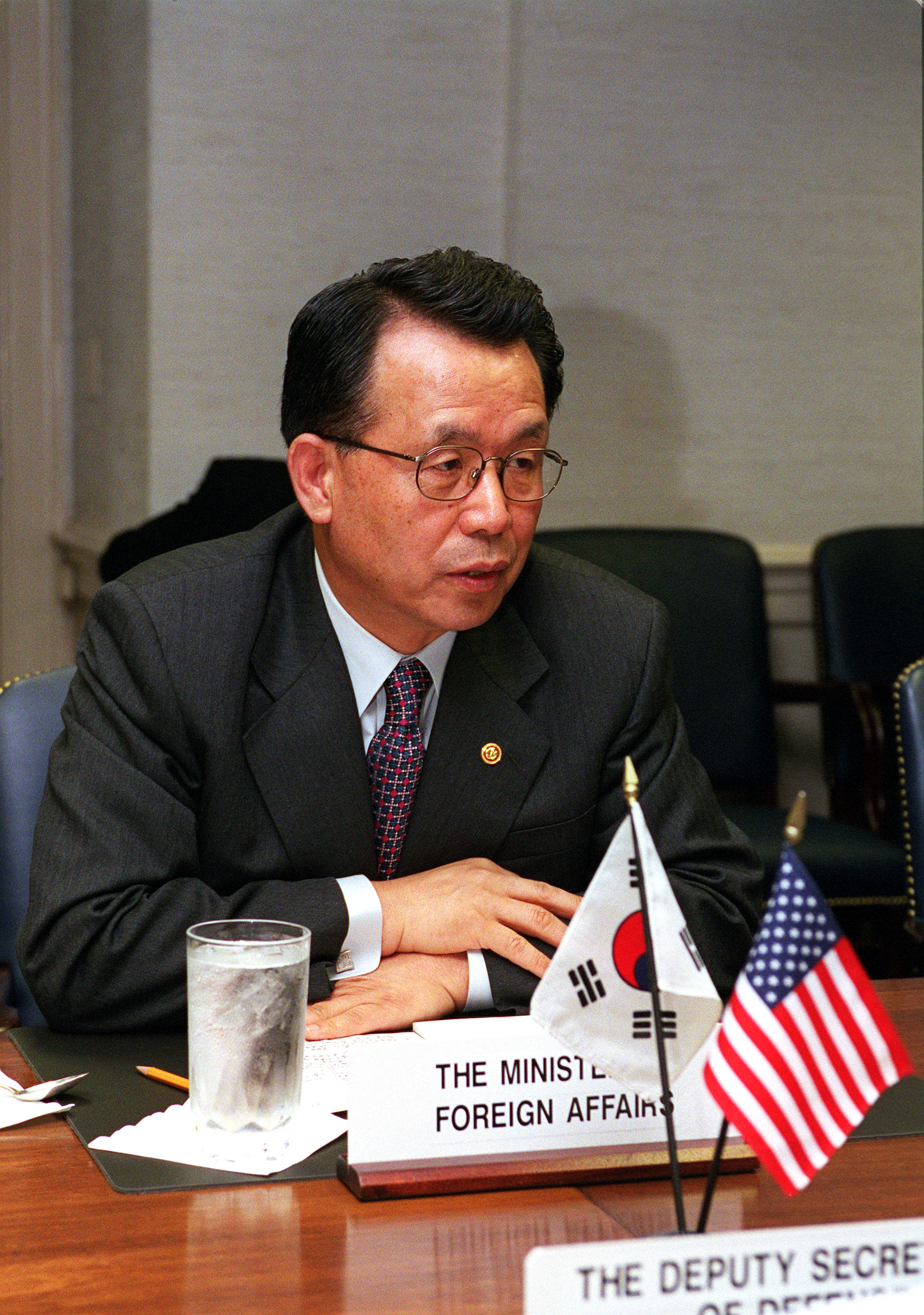 Minister of Foreign Affairs & Trade Han Seung-soo, of South Korea, meets with Deputy Secretary of Defense Paul Wolfowitz at the Pentagon on June 12, 2001.